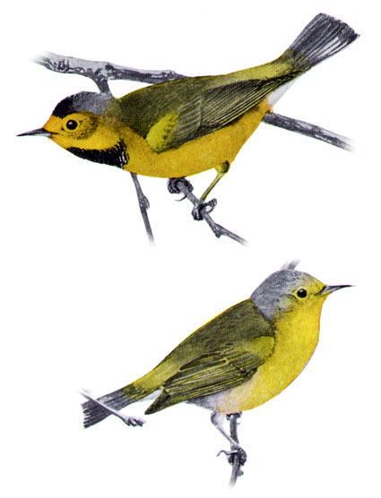 Bachman's Warbler, Vermivora bachmanii, male (upper) and female (lower), offset printing after painting (watercolor or acrylic?). Composition altered from original.